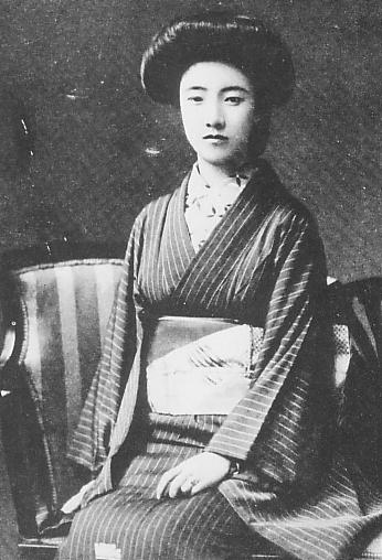 Byakuren Yanagihara